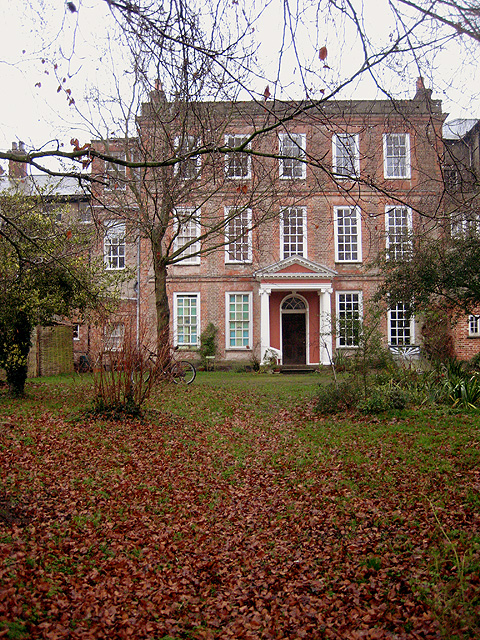 West front of the Old Hall, East Bergholt, Suffolk. This part of a the building is the house of one of four manors in East Bergholt, rebuilt in 1713.From 1857 the house was enlarged to form St Mary's Abbey for a community of Benedictine Nuns. From 1940 the Army occupied and used the buildings. After the war a community of Franciscan Friars lived in it until 1974. Since then it has accommodated a co-ownership housing association of about 42 members plus dependants, who maintain the house and garden and farm about 68 acres of fields from the former estate.This is private land.